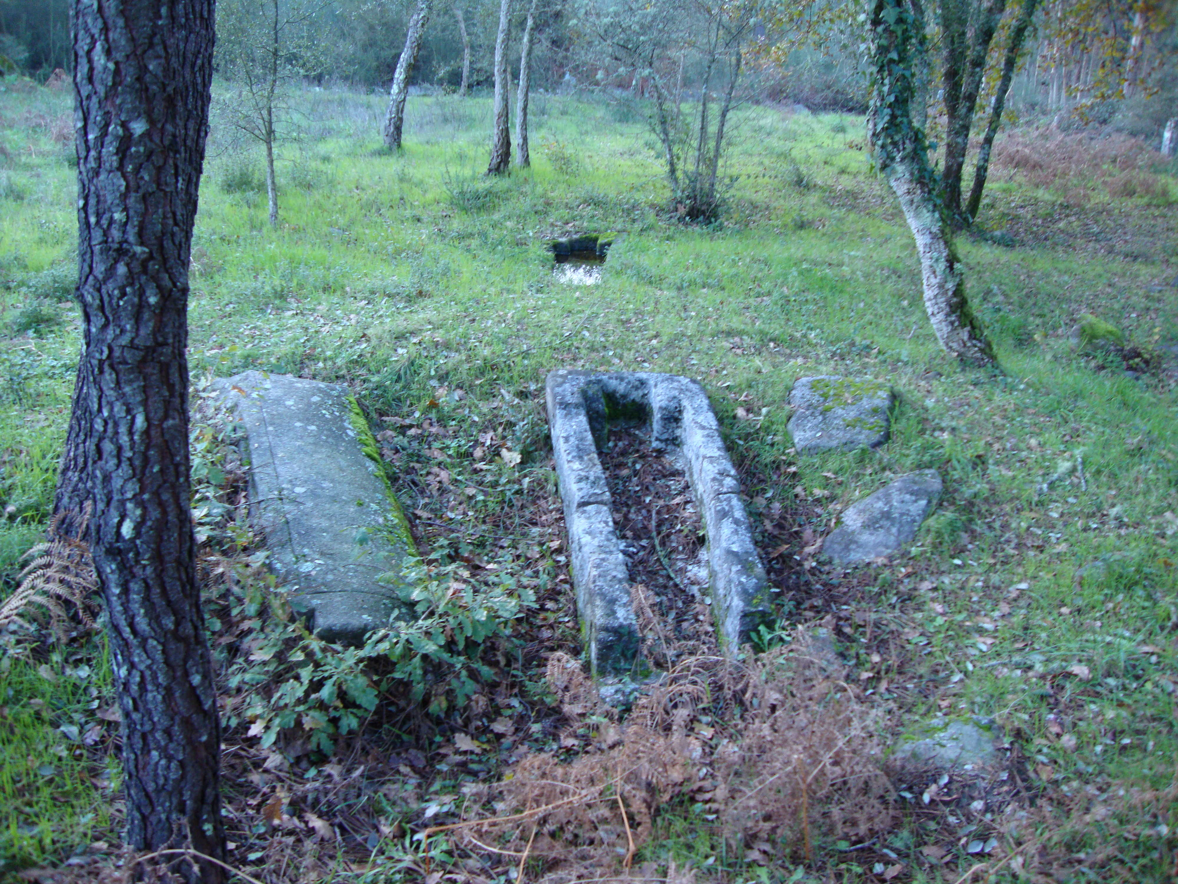 Photo of Adro Velho